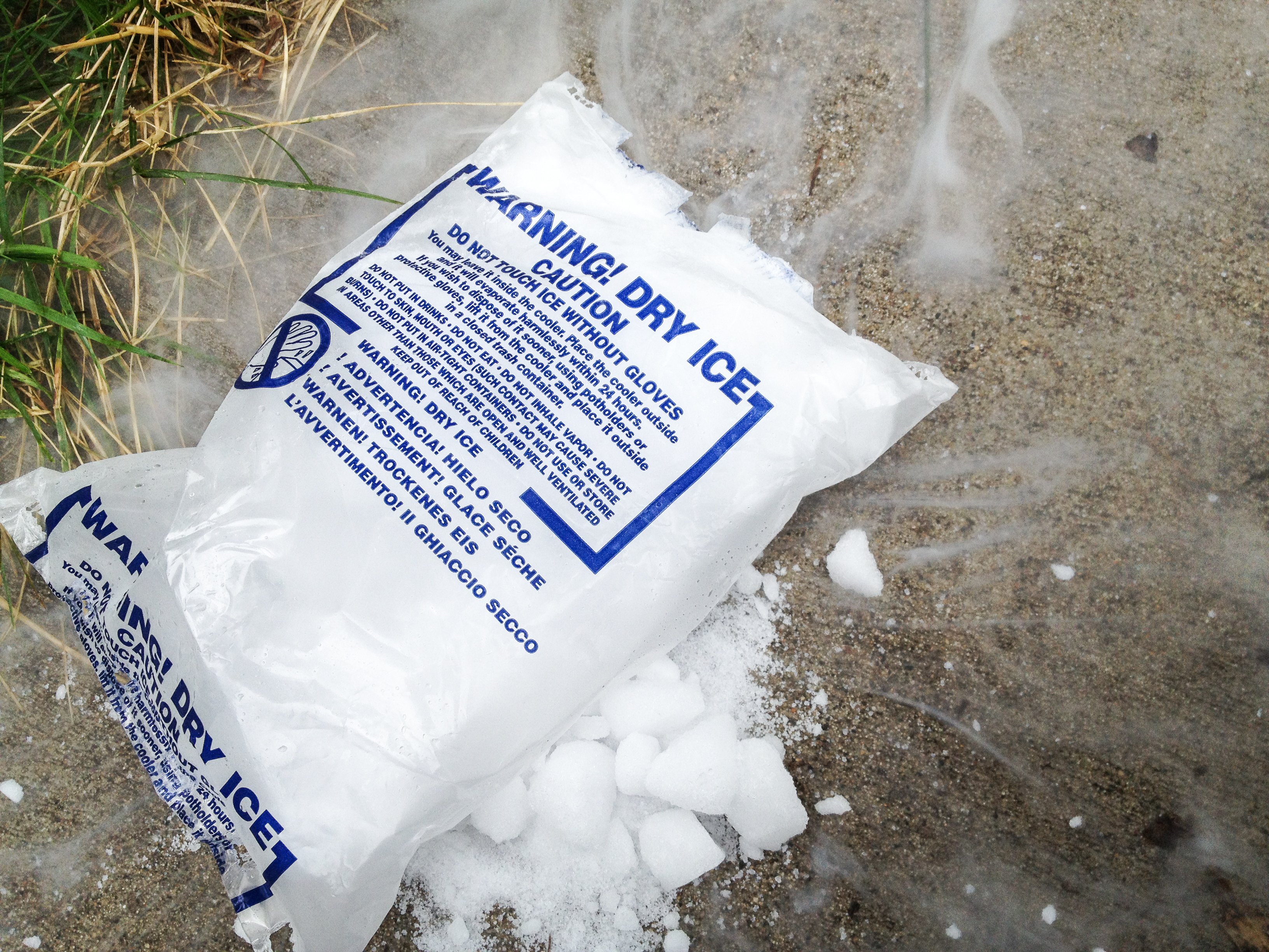 Dry Ice Vapor